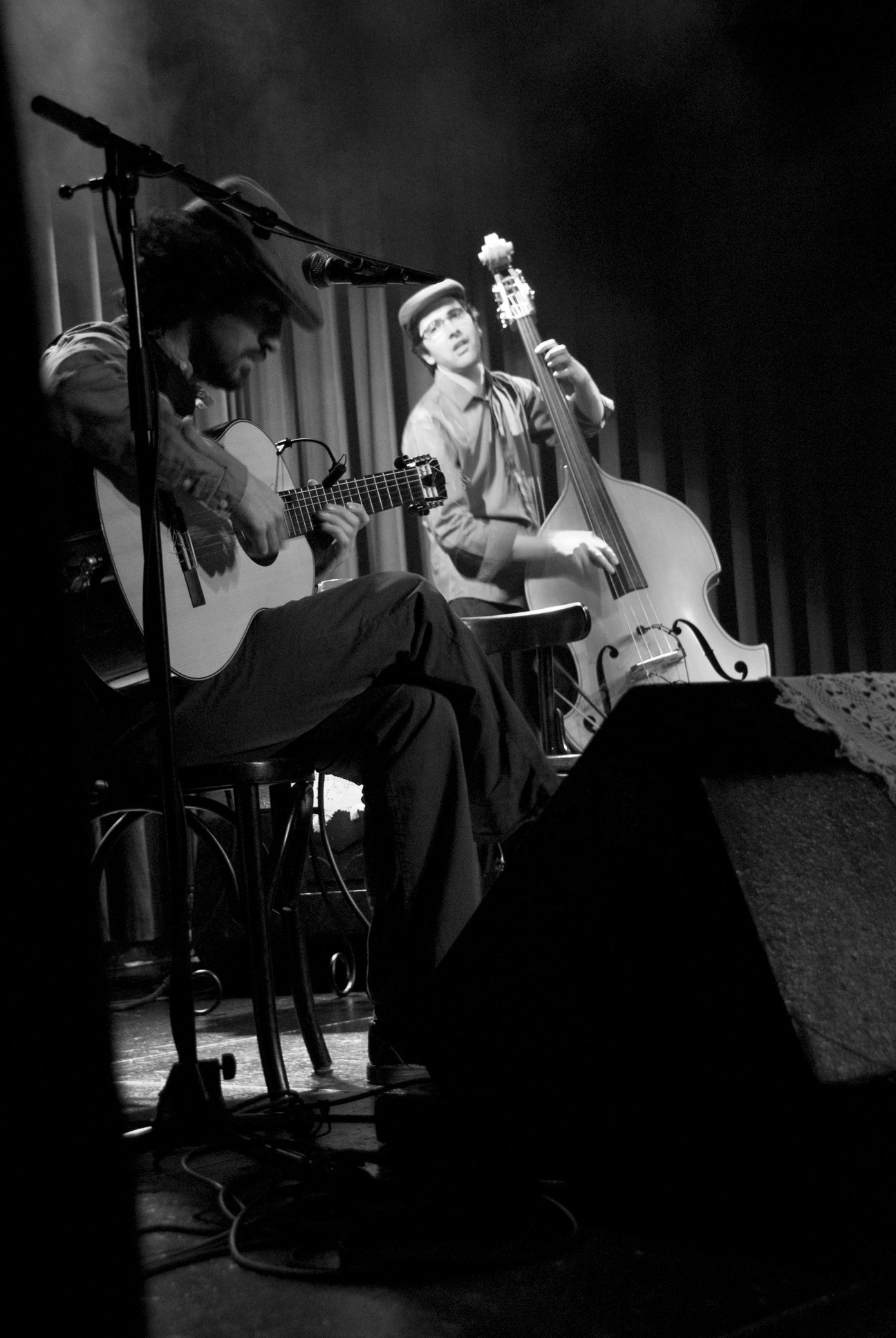 Portuguese quartet band Deolinda playing Melkweg, Amsterdam.